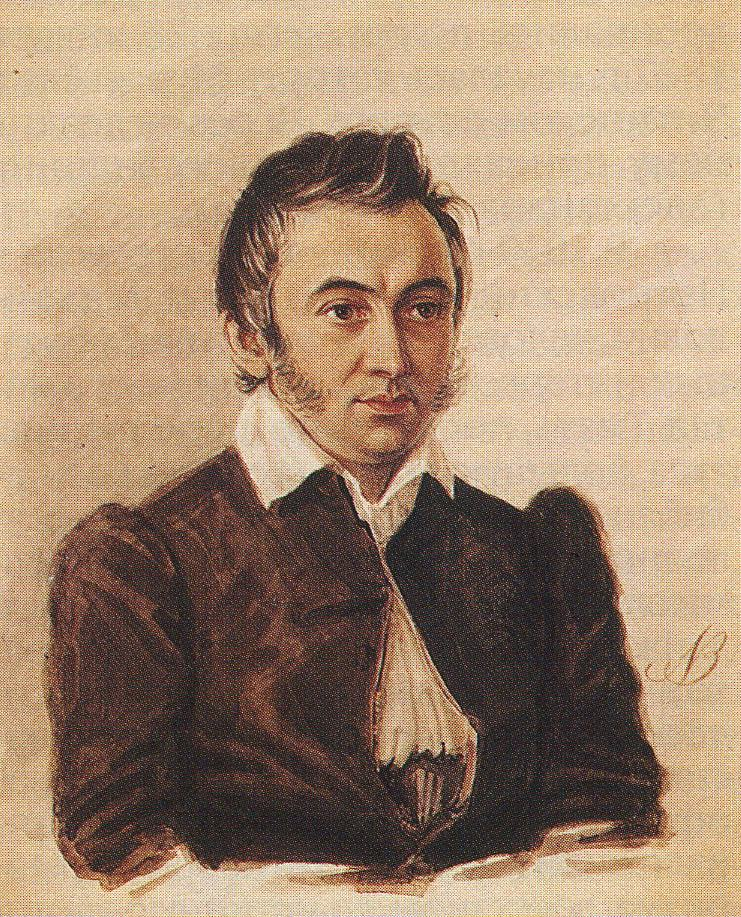 Nikolay Bestuzhev. Portrait of Nikita Mikhailovich Muraviev. 1836.